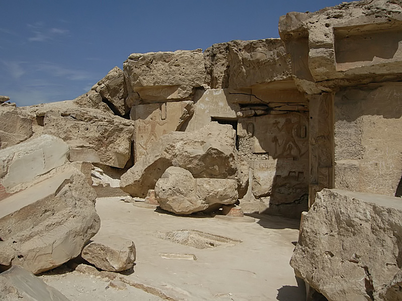 Cathedral of the monastery of Deir el-Bersha, Egypt